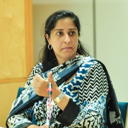 Attiya Waris and Shamika Sirimanne Africa eCommerce Week: Empowering African Economies in the Digital Era, examines ways to enhance the ability of African countries to engage in and benefit from e-commerce and the evolving digital economy. It is jointly organized by UNCTAD, the African Union and the European Union. The event is hosted by the Government of Kenya and implemented in collaboration with partners of the eTrade for all initiative. Website